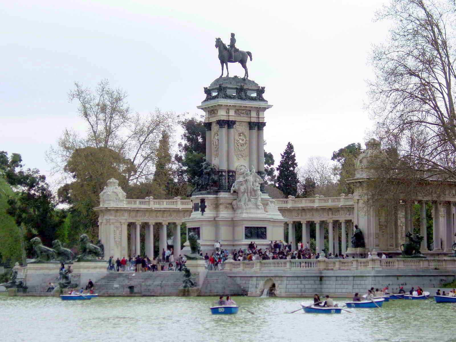 Monument to Alfonso XII of Spain, Madrid, Spain.